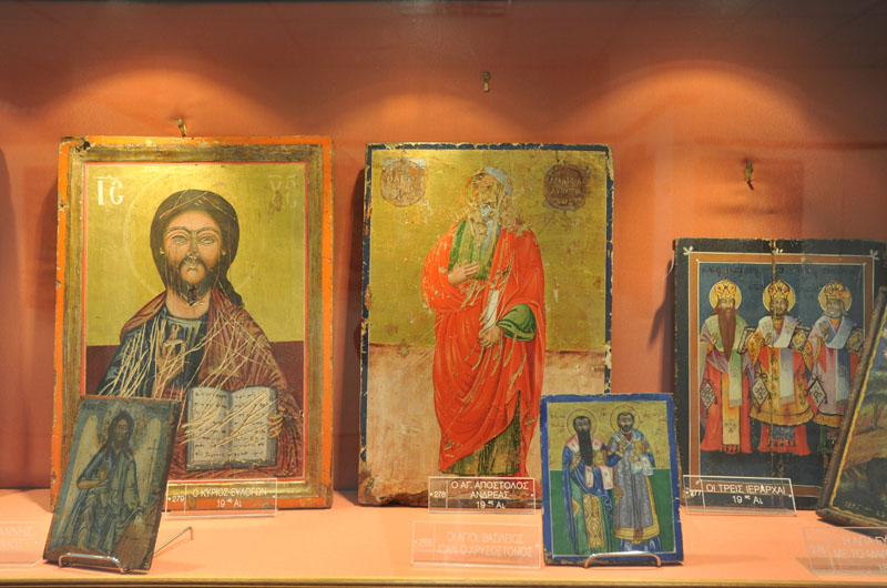 Holy Icons 18th and 19th c, image from the Ecclesiastical Museum, Drama, East Macedonia, Greece